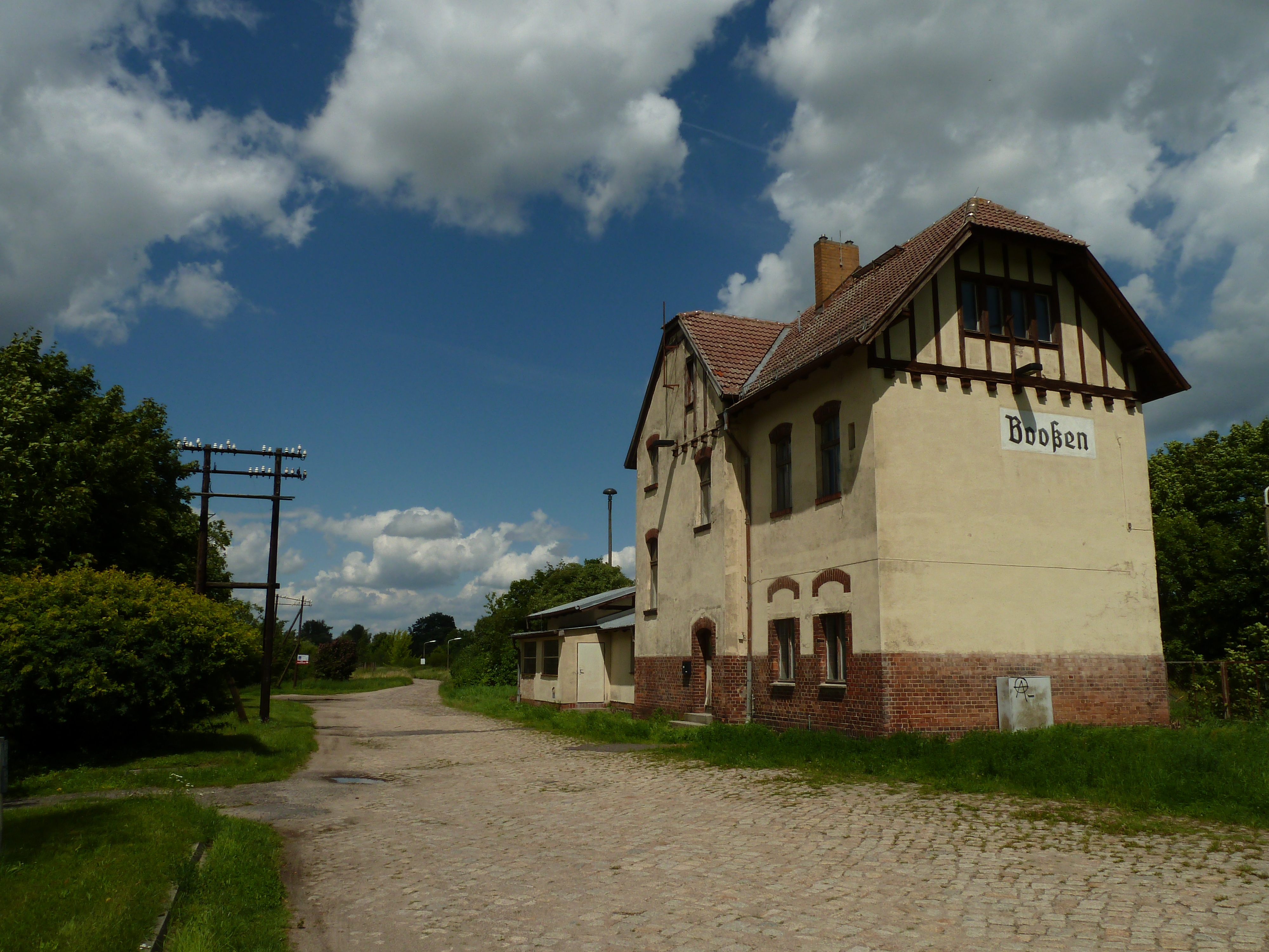 Booßen train station, former station building, view from street.